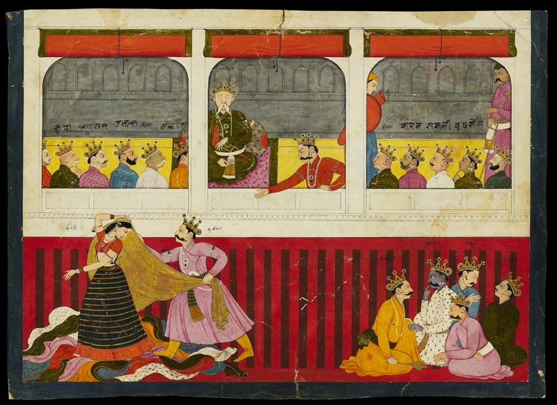 The disrobing of Draupadi, a miniature of the Basohli School, attributed to Nainsukh, c.1765